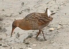 Ridgway's Clapper Rail (Rallus obsoletus) in San Francisco Bay